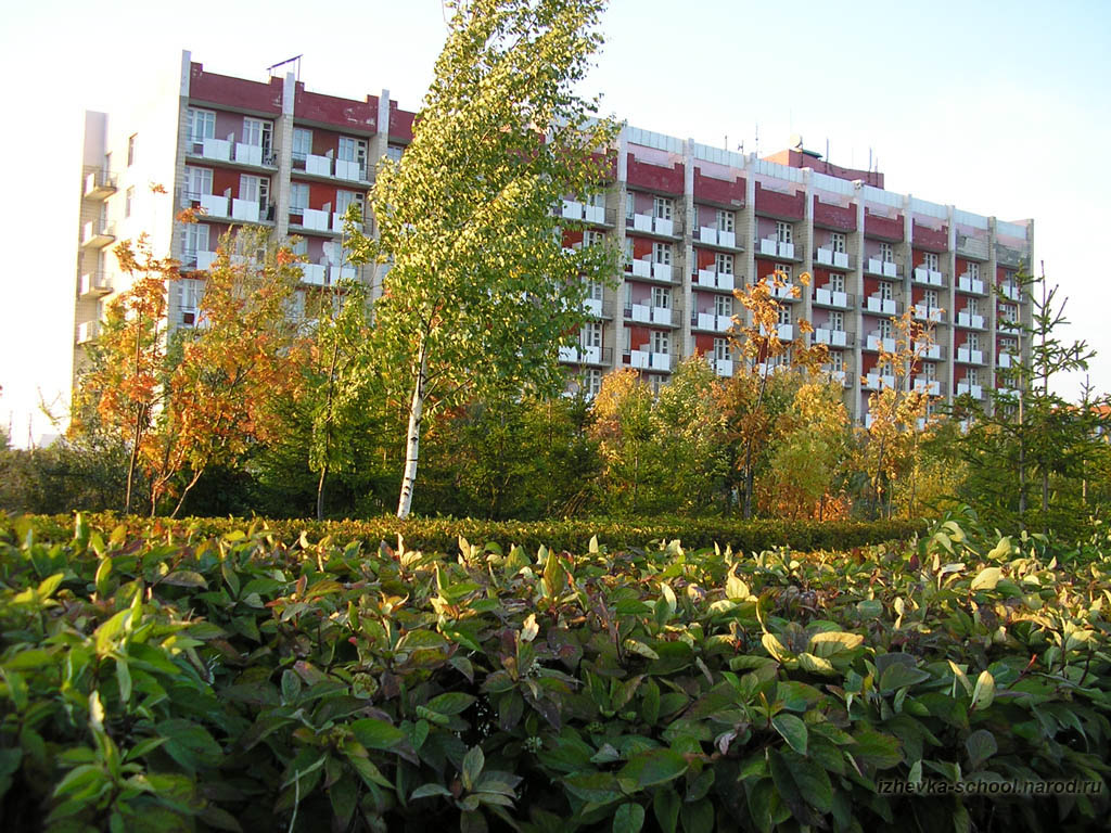 Foto